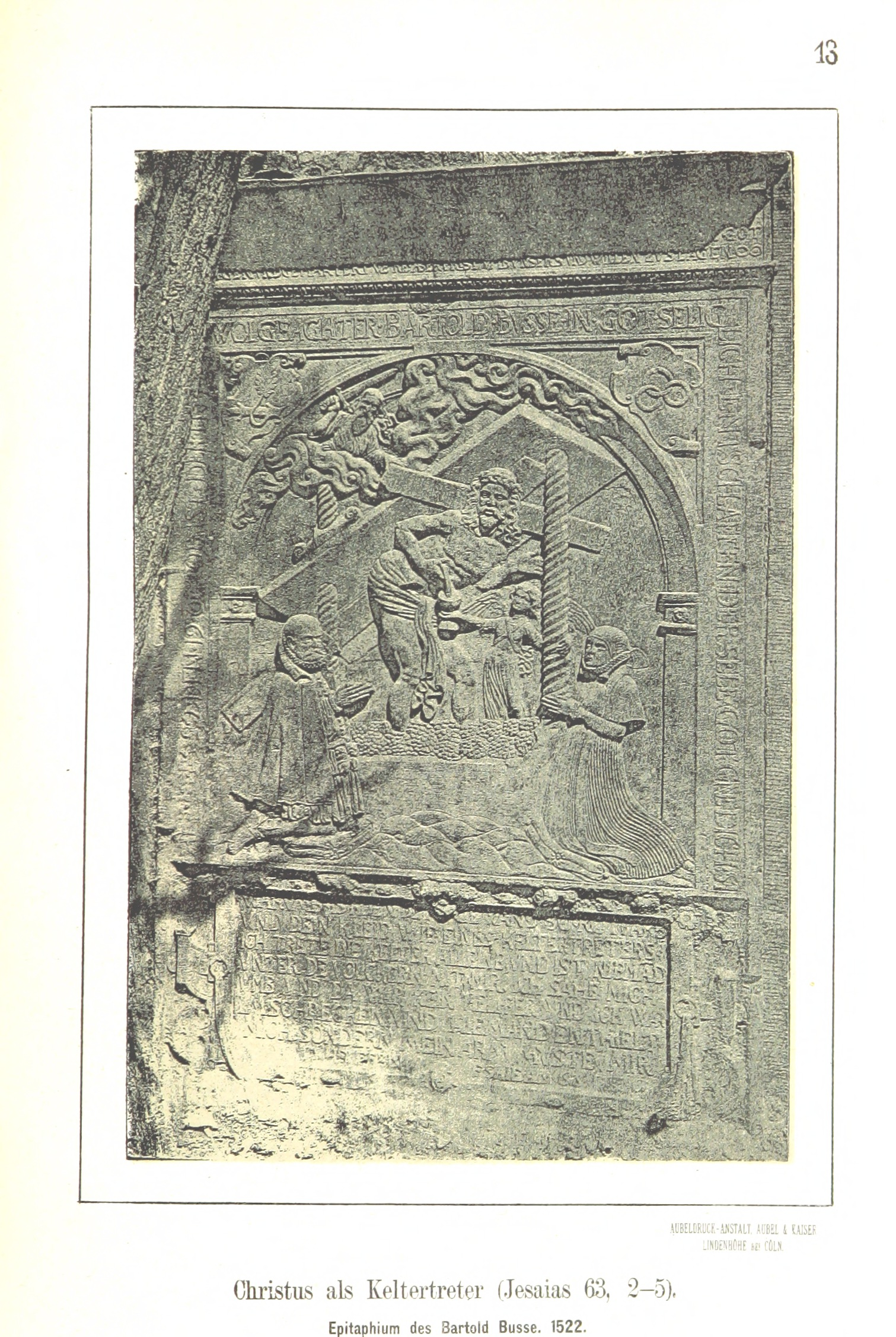 Image taken from: Title: "Aus Hannovers Vorzeit. Ein Beitrag zur deutschen Cultur-Geschichte ... Mit 23 photolithographischen Abbildungen, etc" Author: Jugler, August. Shelfmark: "British Library HMNTS 9366.h.1." Page: 353 Place of Publishing: Hannover Date of Publishing: 1876 Issuance: monographic Identifier: 001910891 Explore: Find this item in the British Library catalogue, 'Explore'. Download the PDF for this book (volume: 0) Image found on book scan 353 (NB not necessarily a page number) Download the OCR-derived text for this volume: (plain text) or (json) Click here to see all the illustrations in this book and click here to browse other illustrations published in books in the same year. Order a higher quality version from here.